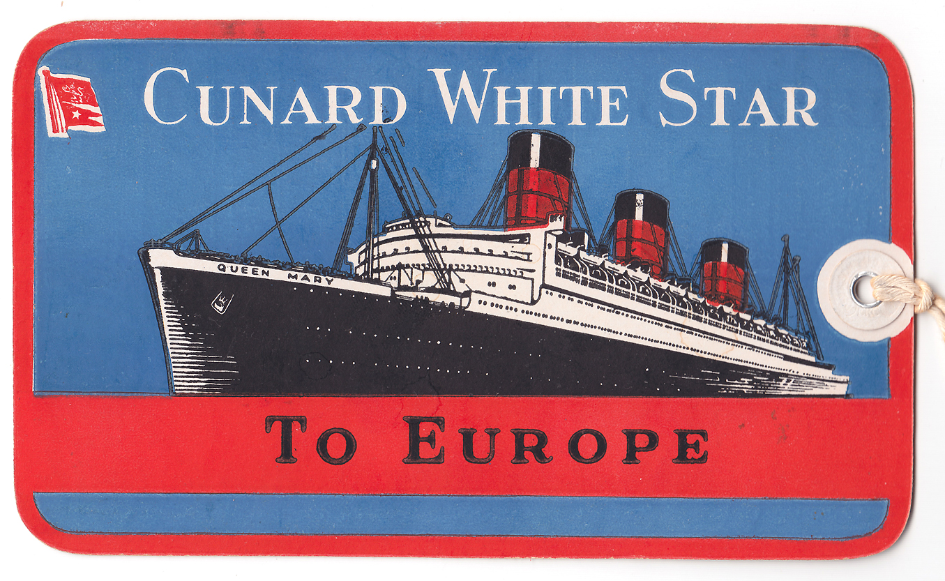 Cunard White Star line RMS Queen Mary "to Europe" passenger baggage tag (late 1940s)